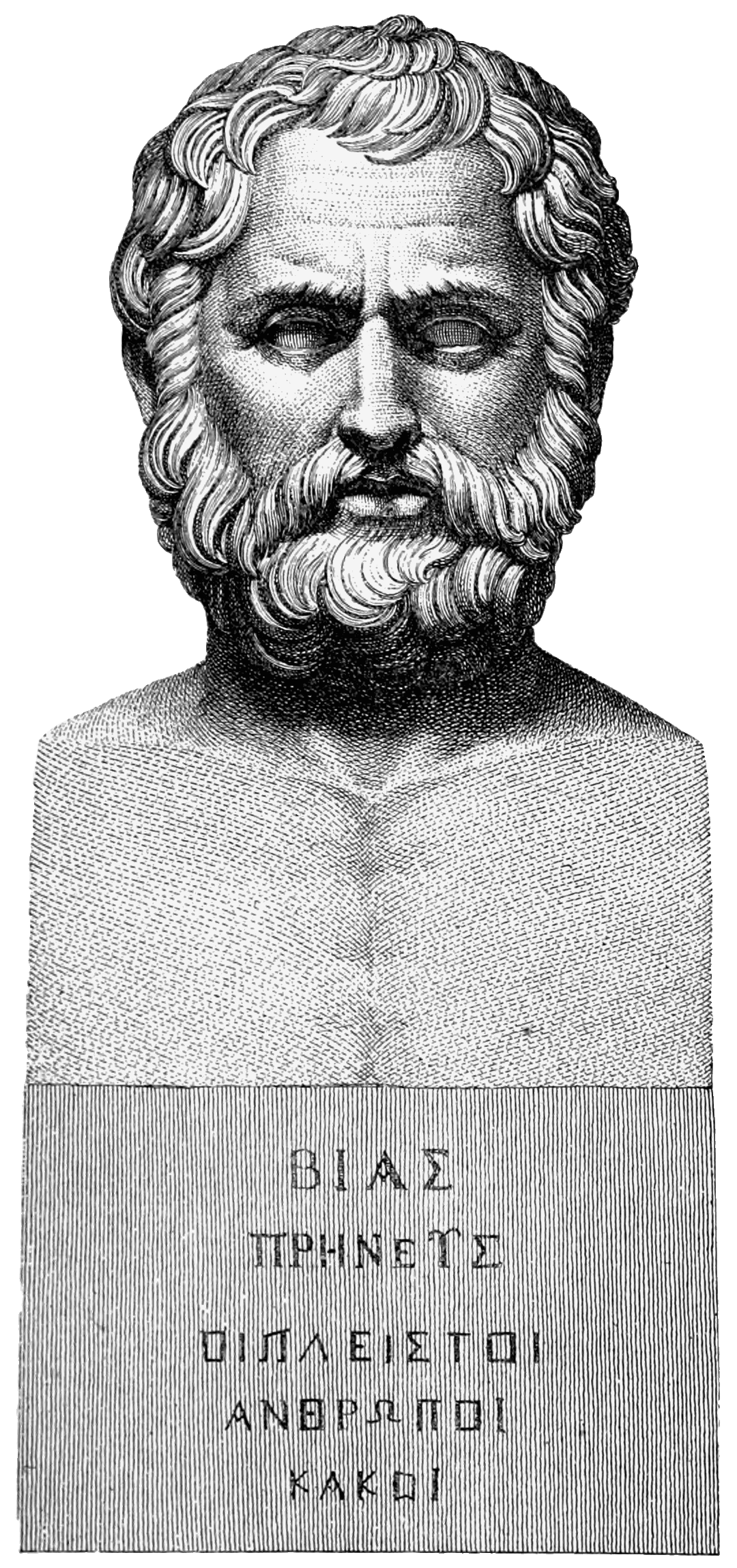 Bias, ancient Greek statesman and philosopher.